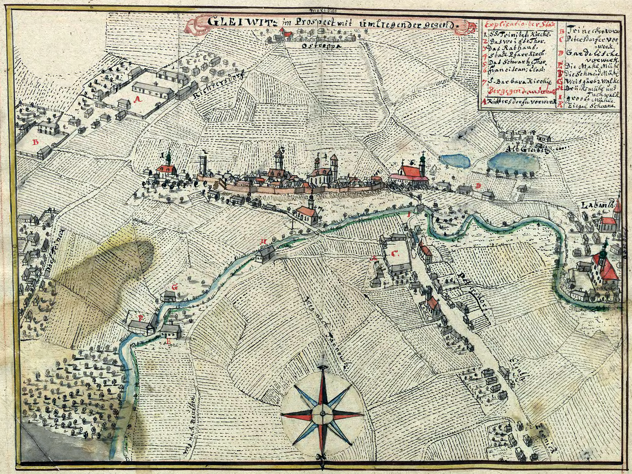 Gliwice and surroundings.